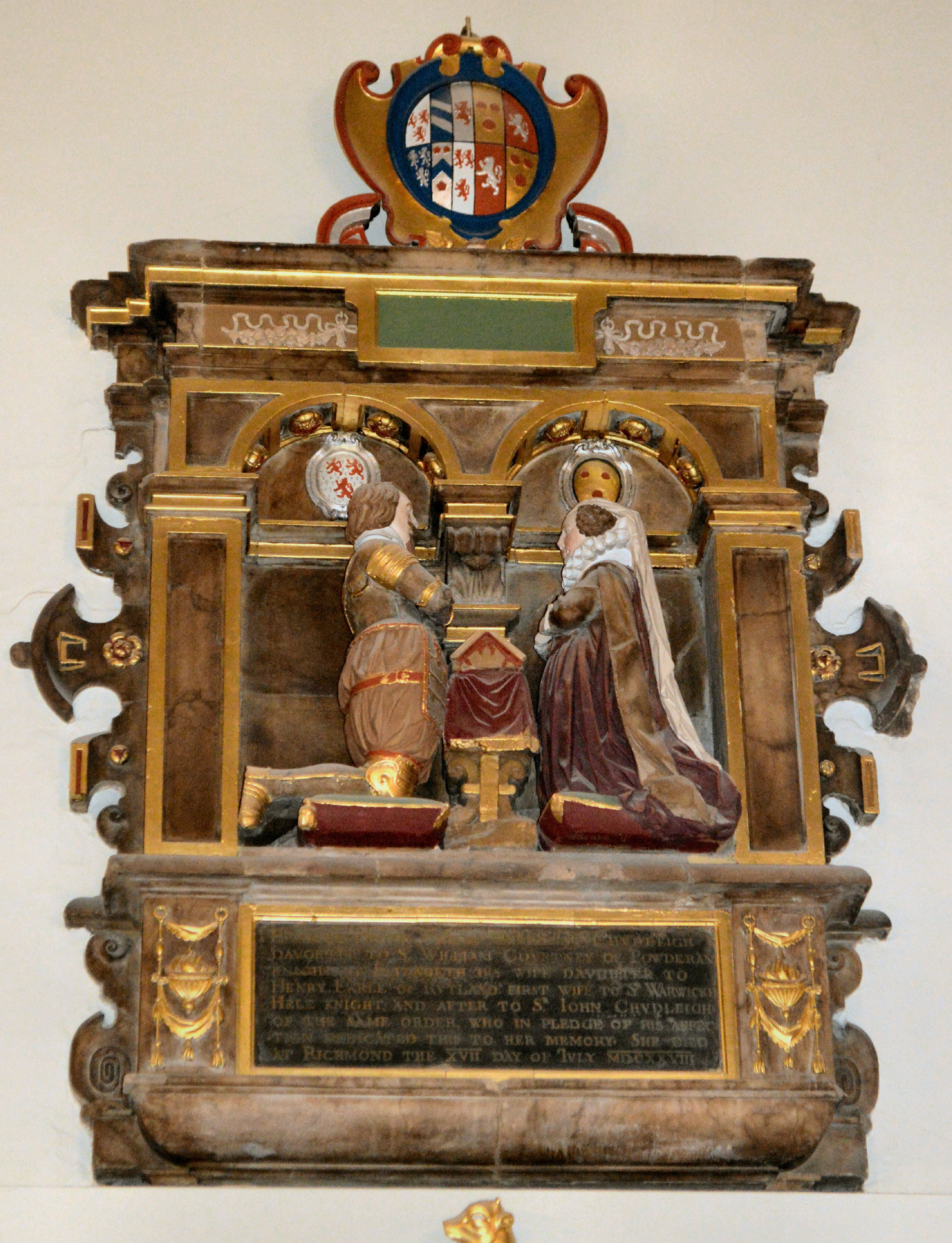 St Mary Magdalene's, Richmond, mural monument to Margaret Courtenay (d.1628), eldest daughter of Sir William Courtenay (1553–1630), of Powderham in Devon, de jure 3rd Earl of Devon, by his first wife Elizabeth Manners, a daughter of Henry Manners, 2nd Earl of Rutland. She married firstly Sir Warwick Hele (1568-1626) of Wembury in Devon, MP, secondly Sir John Chudleigh (born 1584), knighted by King Charles I 22 Sept 1625, 3rd son of John Chudleigh (1565-1589) of Ashton, Devon, and younger brother of Sir George Chudleigh, 1st Baronet (d.1656). (Source:Vivian, Lt.Col. J.L., (Ed.) The Visitations of the County of Devon: Comprising the Heralds' Visitations of 1531, 1564 & 1620, Exeter, 1895, p.247, Courtenay; p.190 Chudleigh). Left: Sir John Chudleigh, with arms of Chudleigh above (Ermine, three lions rampant gules); right: Margaret Courtenay, with arms of Courtenay above. Arms at top: Chudleigh (of 6 quarters) impaling Courtenay (quartering de Redvers, tinctures incorrectly restored). Arms of Chudleigh family (Chudleigh Baronets) of Ashton, Devon: Ermine, three lions rampant gules (Pole, Sir William (d.1635), Collections Towards a Description of the County of Devon, Sir John-William de la Pole (ed.), London, 1791, p.478)